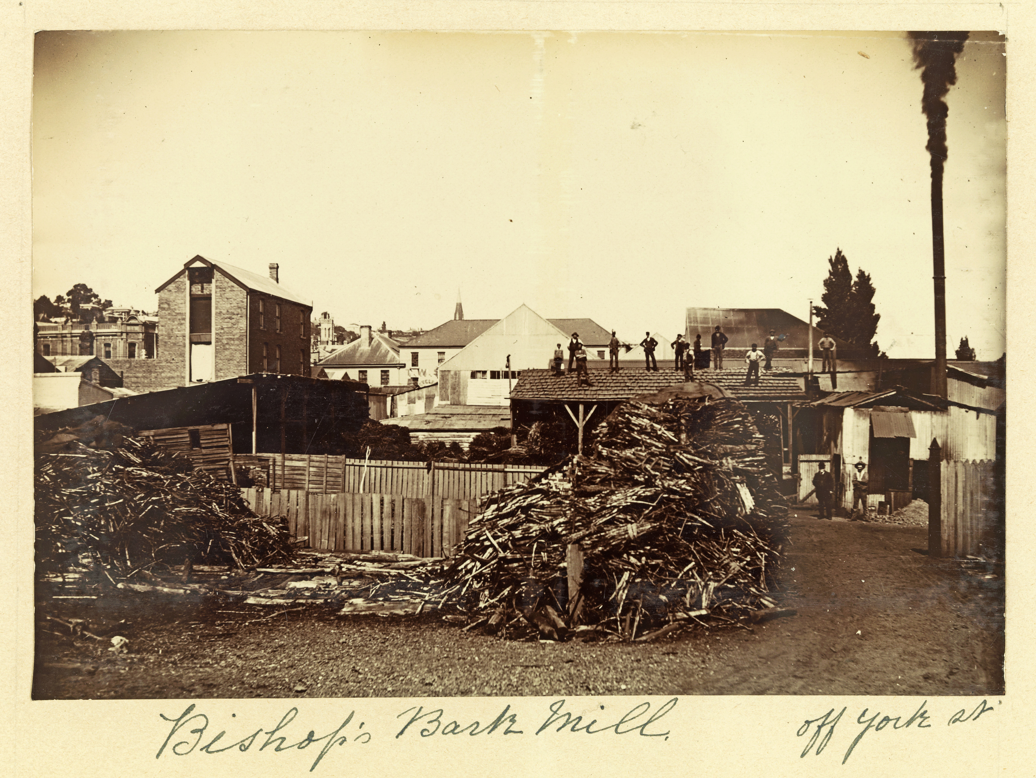 Tasmanian Archive and Heritage Office: LPIC22-1-93 Images from the TAHO collection that are part of The Commons have ‘no known copyright restrictions’, which means TAHO is unaware of any current copyright restrictions on these works. This can be because the term of copyright for these works may have expired or that the copyright was held and waived by TAHO. The material may be freely used provided TAHO is acknowledged; however TAHO does not endorse any inappropriate or derogatory use.